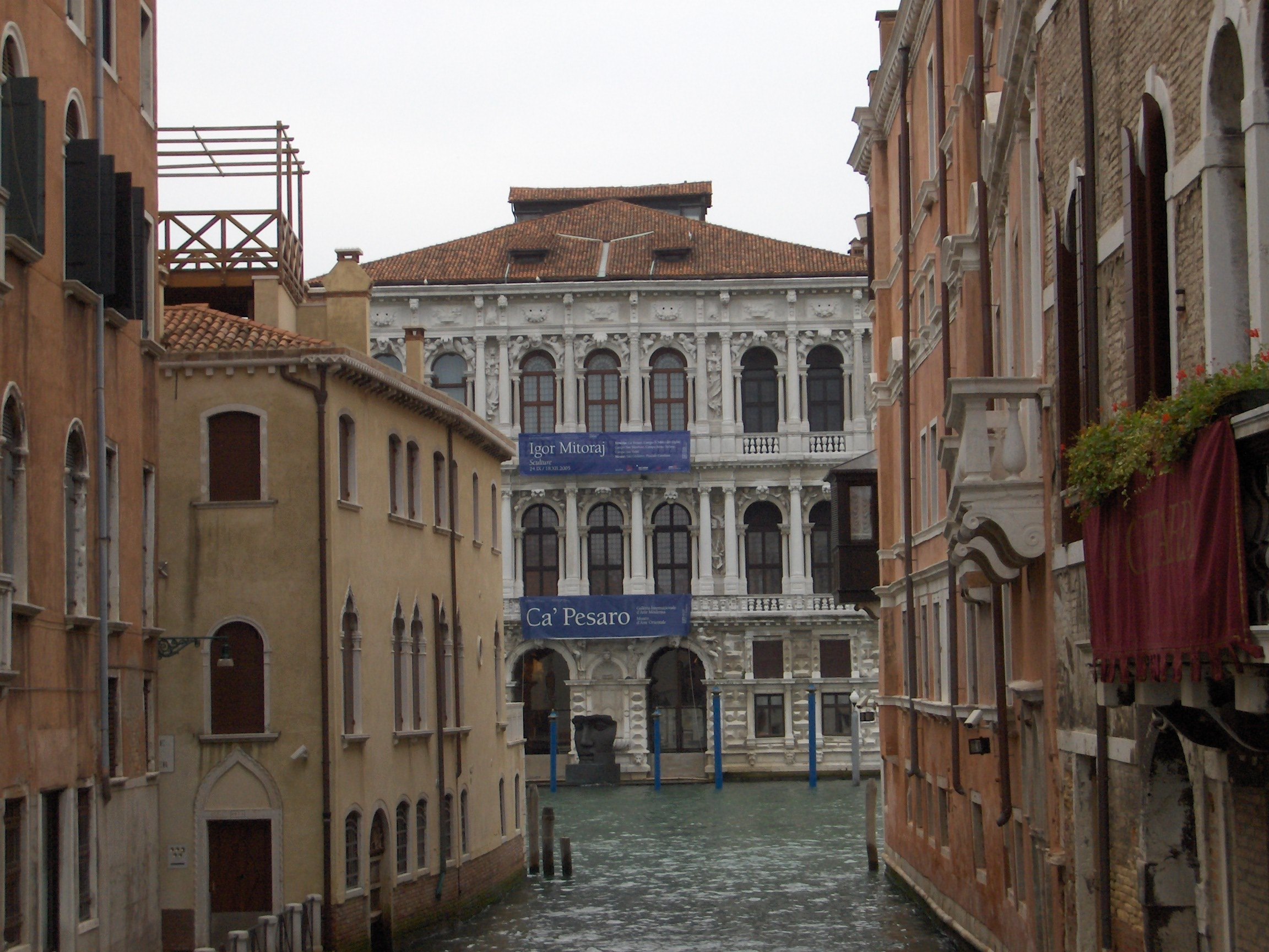 Ca' Pesaro is a palace in Venice. Source: photo uploaded by User:RicciSpeziari. Photographer: Basilio Speziari